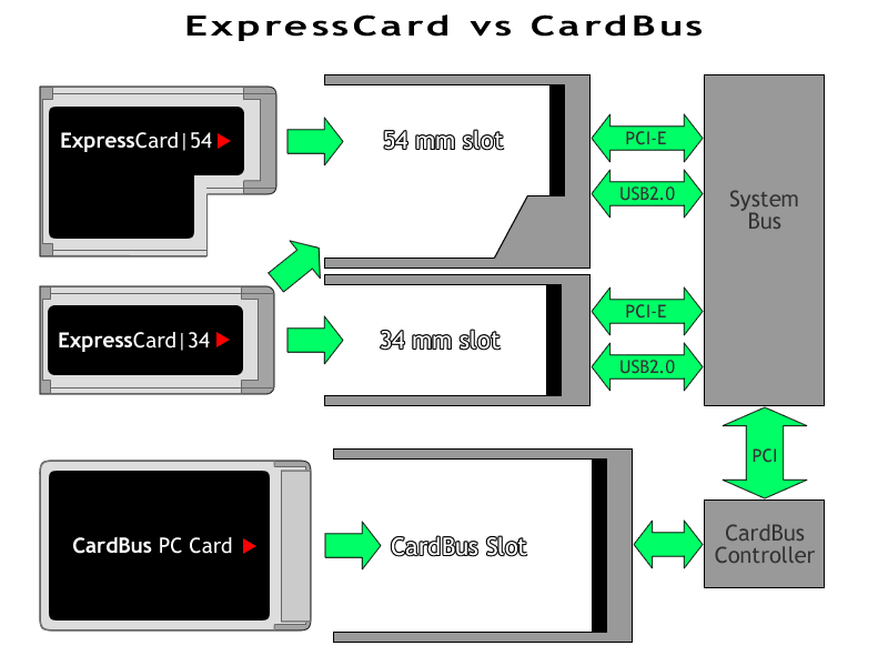 Explanation of the differences between the ExpressCard and CardBus interfaces.